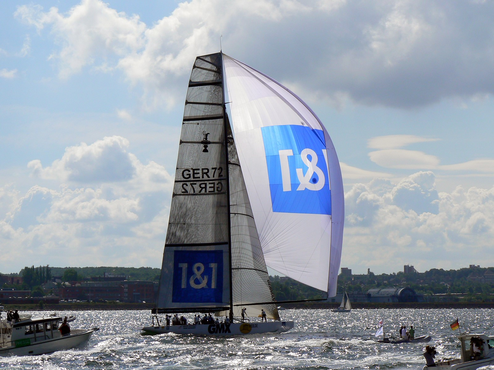 German Sailing Grand Prix Kiel 2006. United Internet Team Germany.